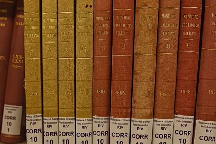 Volumes of the Rewiew "Monitore Zoologico Italiano"